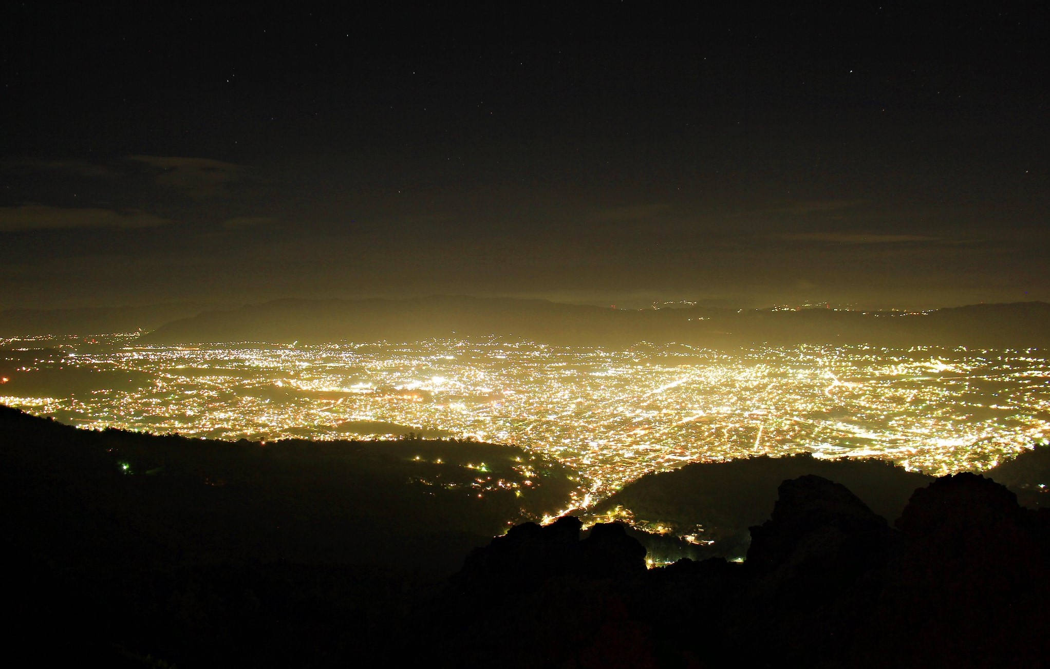 La ciudad de Xela de noche